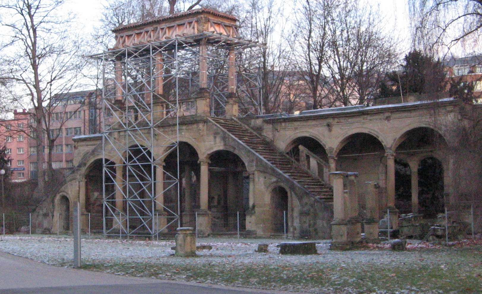 ruin of the Neues Lustschloss in Stuttgart